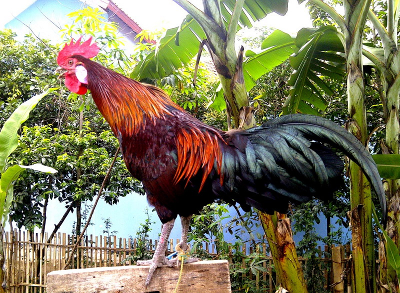 My own picture